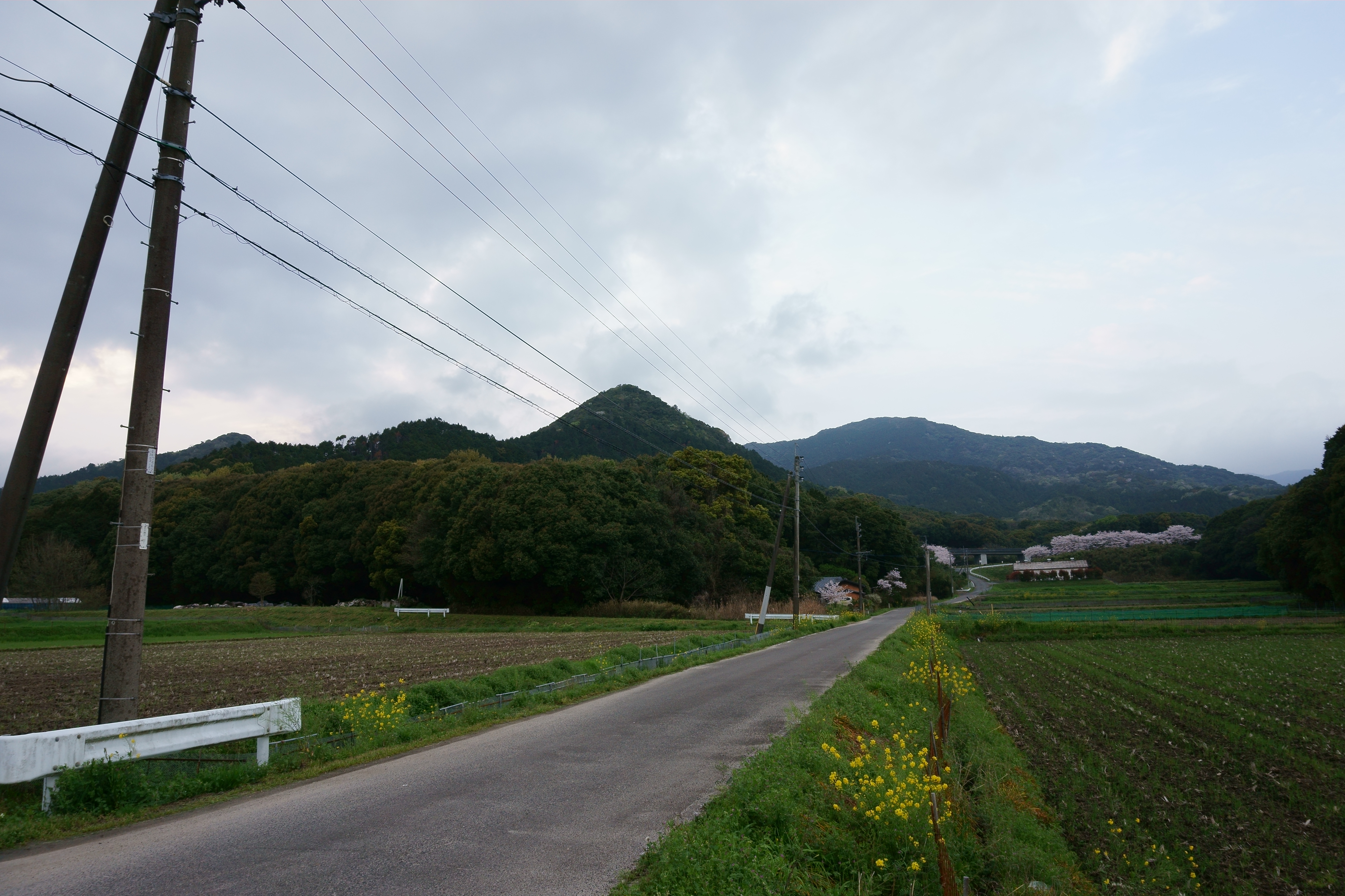 Around of Mount Shiroyama in Kanzaki city, Saga prefecture. There is Seifukuji Castle ruin in the Muromachi Period(14c-16c).